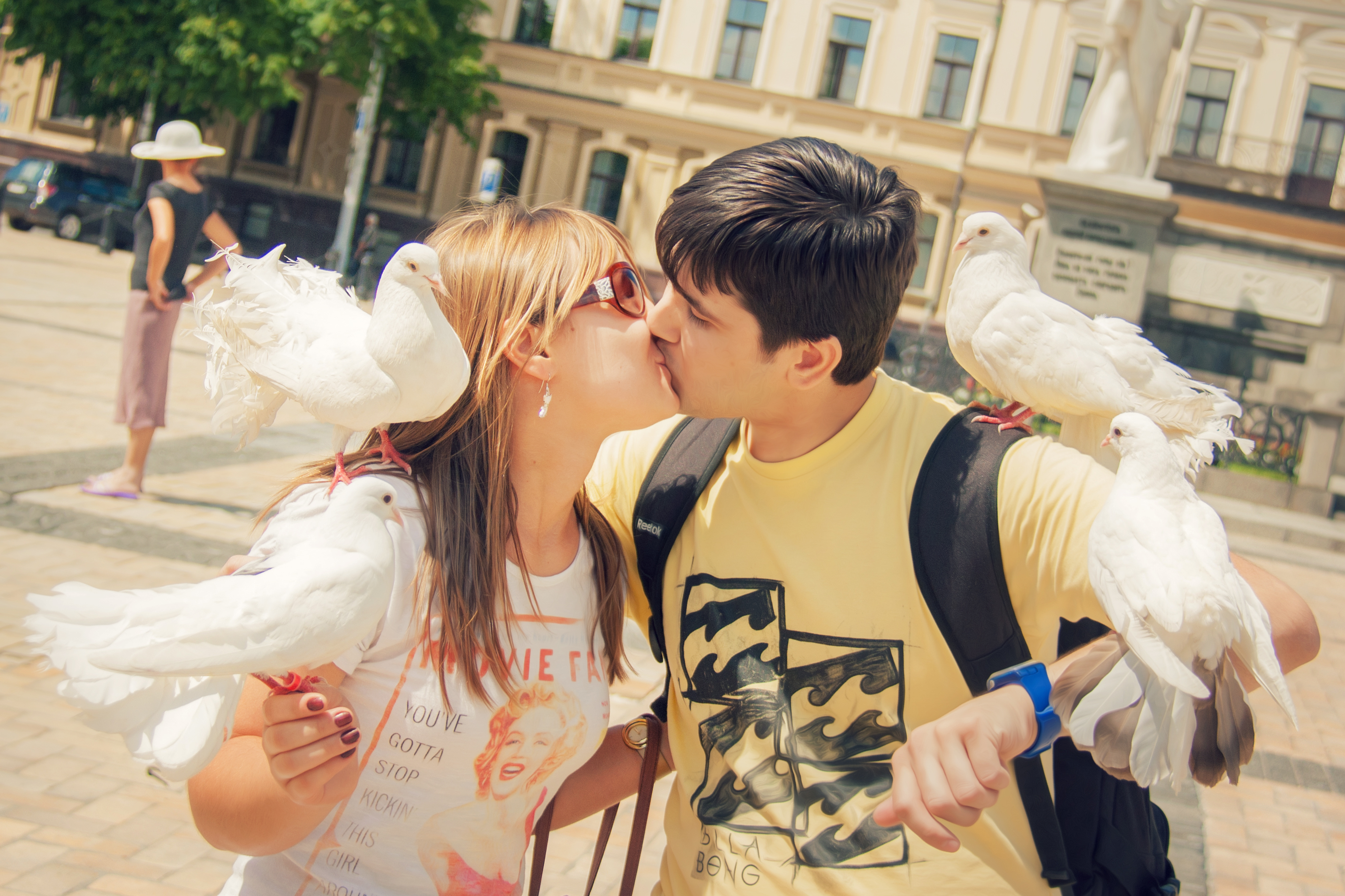 Man and woman kissing with perching doves. Kiev, Ukraine